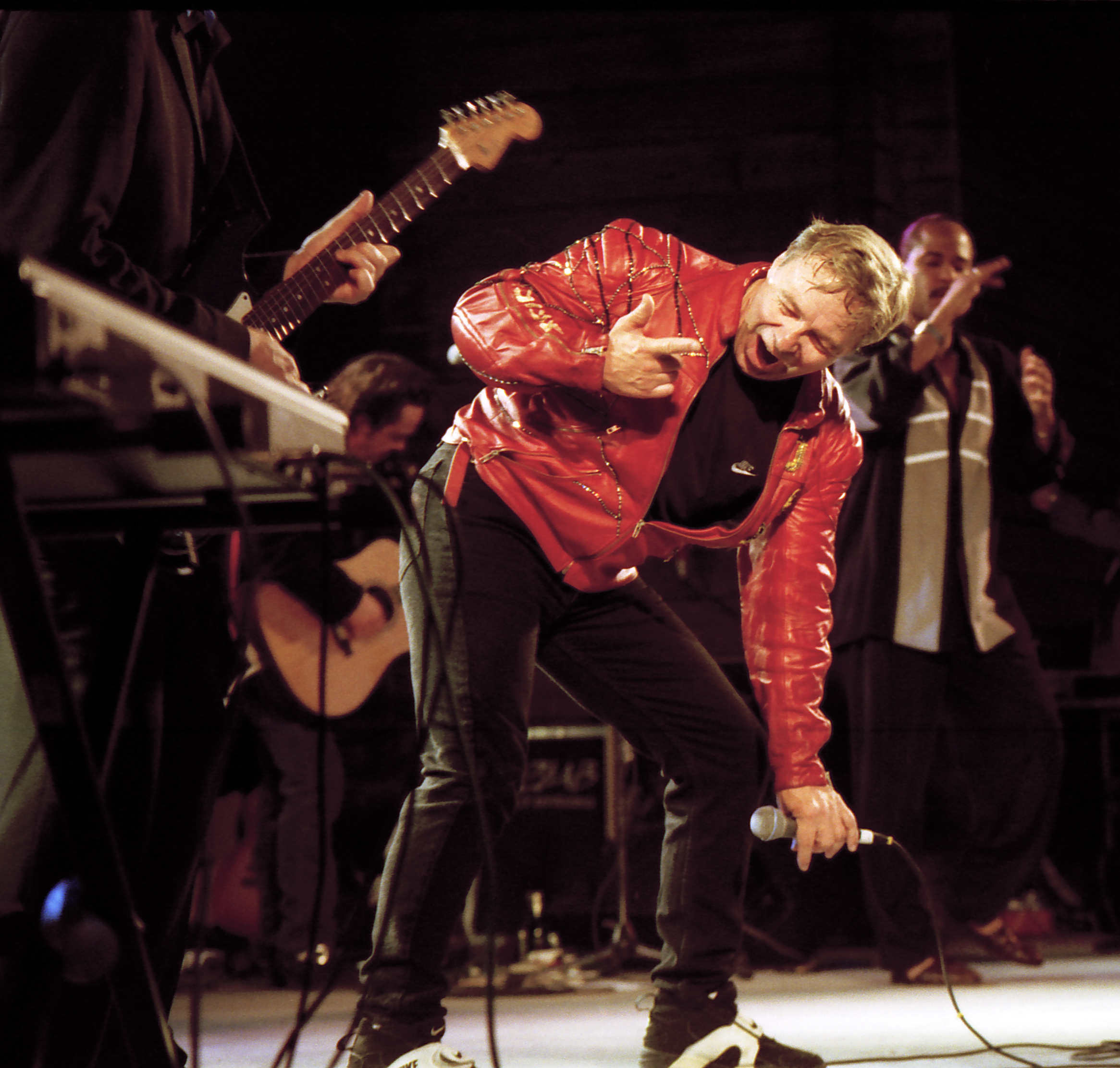 Jerry Williams